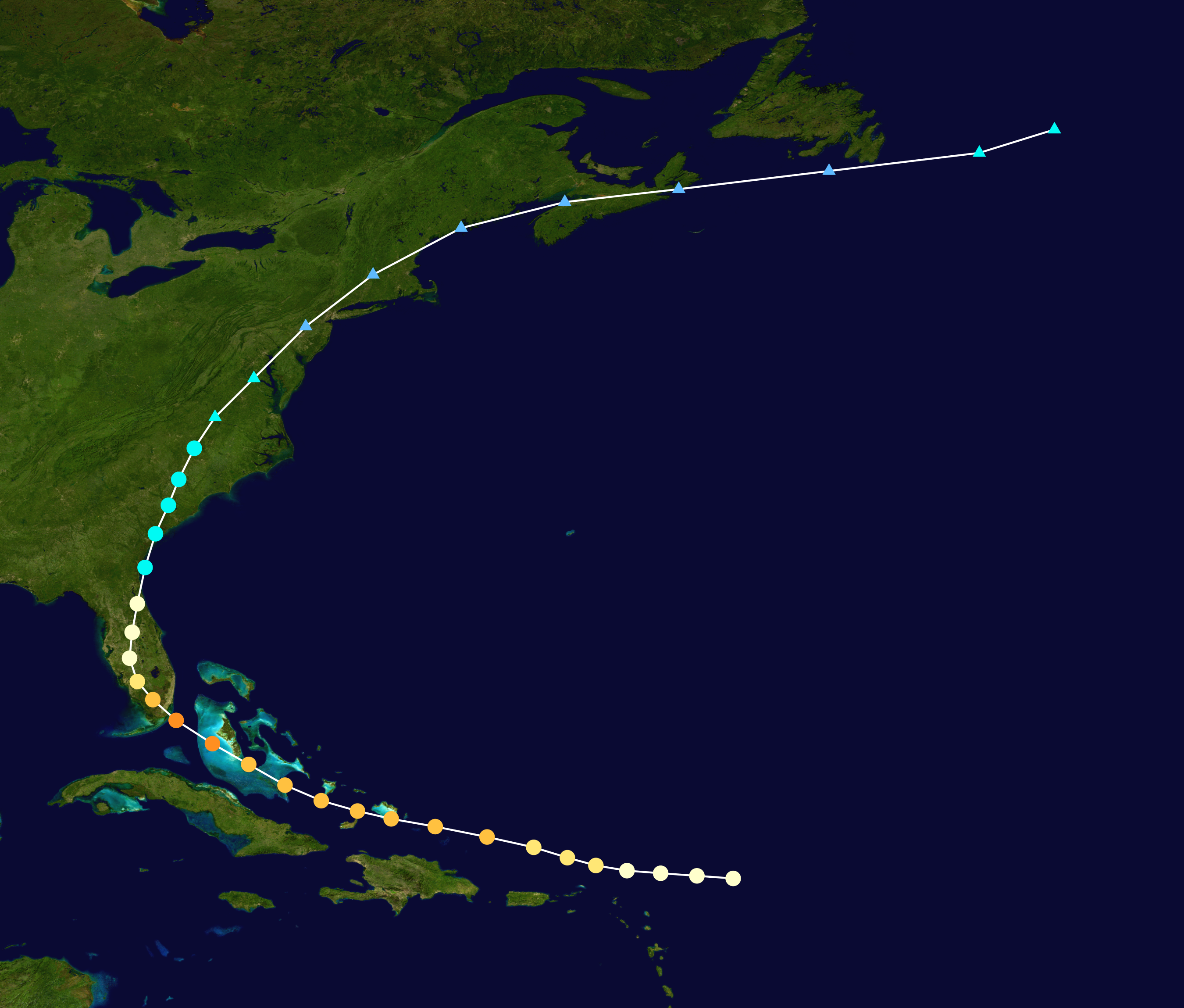 1945 Atlantic hurricane 9 (1945) track. Uses the color scheme from the Saffir-Simpson Hurricane Scale.